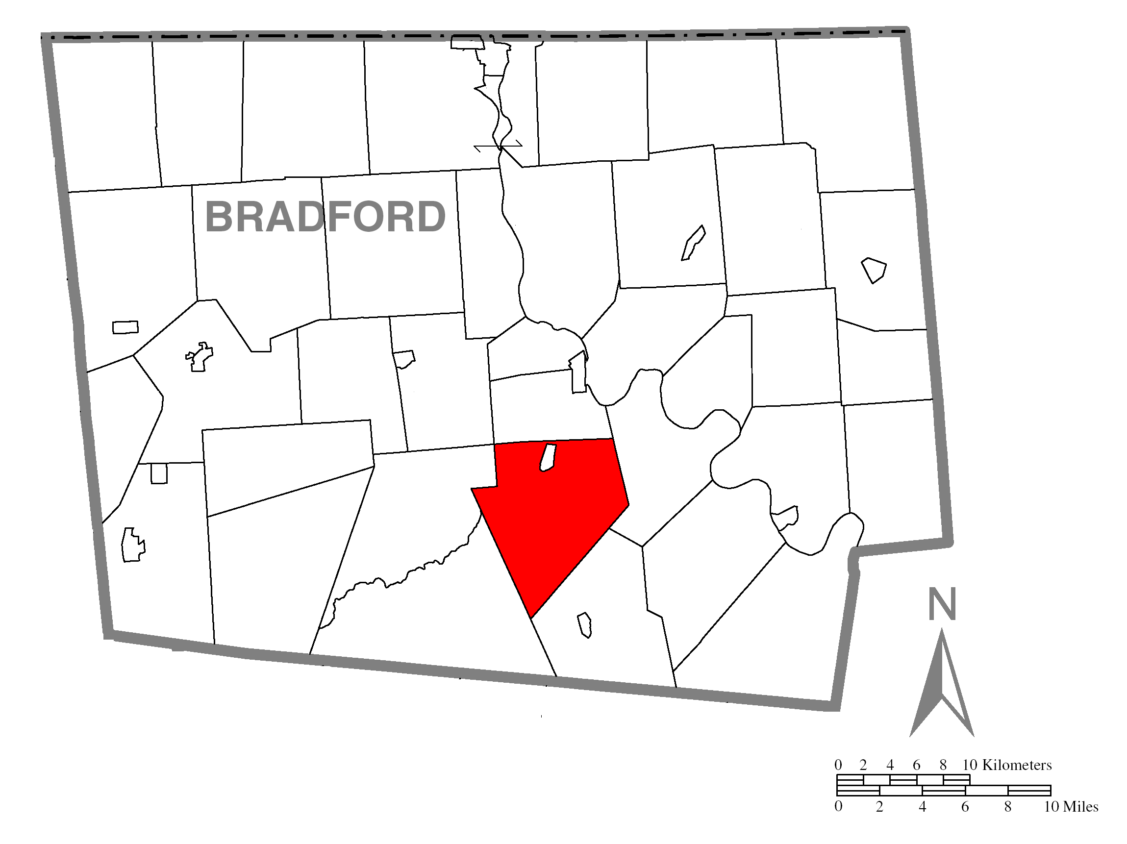 A map of Bradford County showing Monroe Township, Pennsylvania (alternate) highlighted on the map.